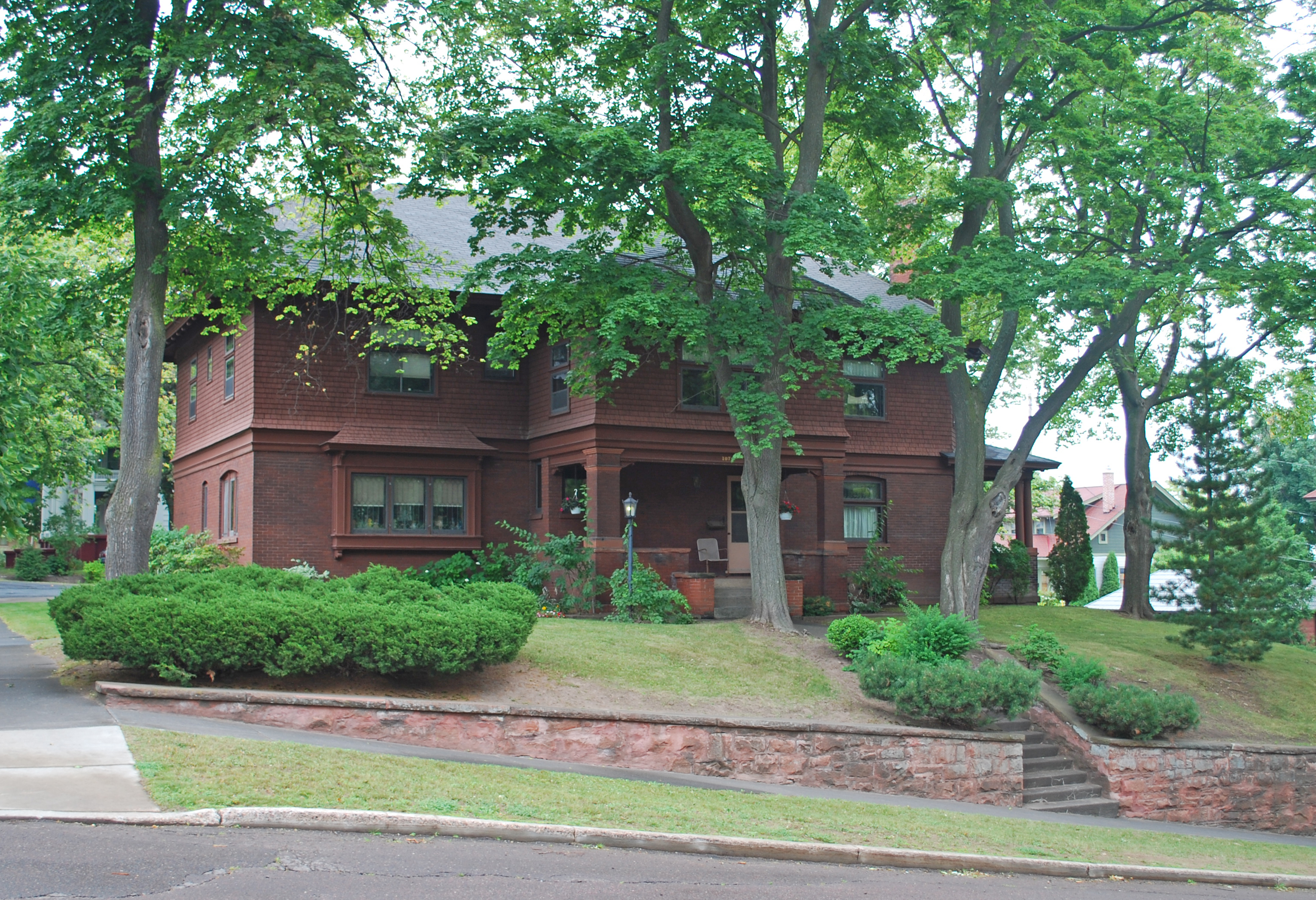 East Hancock MI Neighborhood Historic District